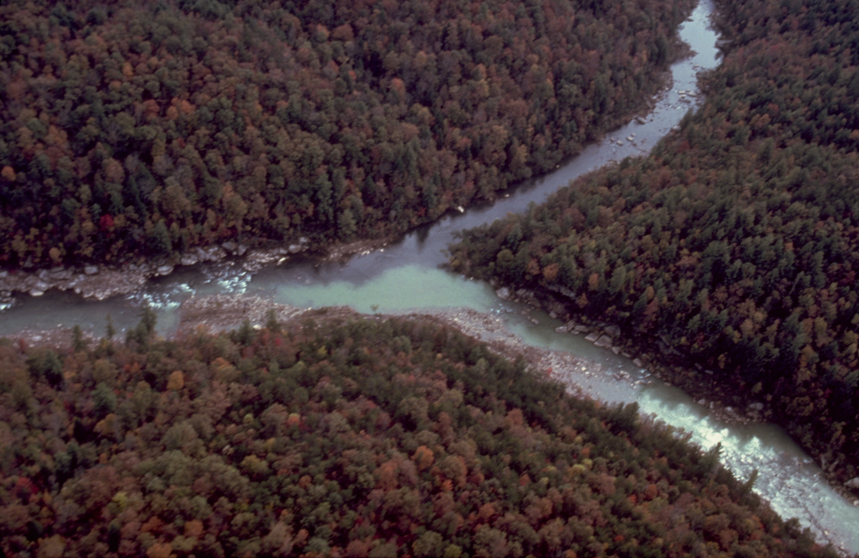 Location Big South Fork National River and Recreation Area Description Encompassing 125,000 acres of the Cumberland Plateau, Big South Fork National River and Recreation Area protects the free-flowing Big South Fork of the Cumberland River and its tributaries. The area boasts miles of scenic gorges and sandstone bluffs, is rich with natural and historic features and has been developed to provide visitors with a wide range of outdoor recreational activities.